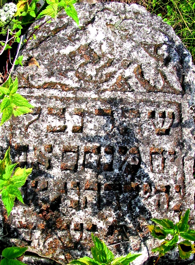 Jewish gravestone with Hebrew writing at the Jewish cemetery in the town of Voynyliv (ukr. Войнилів, pol. Wojnilow - Wojniłów , rus. Войнилов - Voynilov) in Kalush district, Ivano-Frankivsk Oblast, western Ukraine.